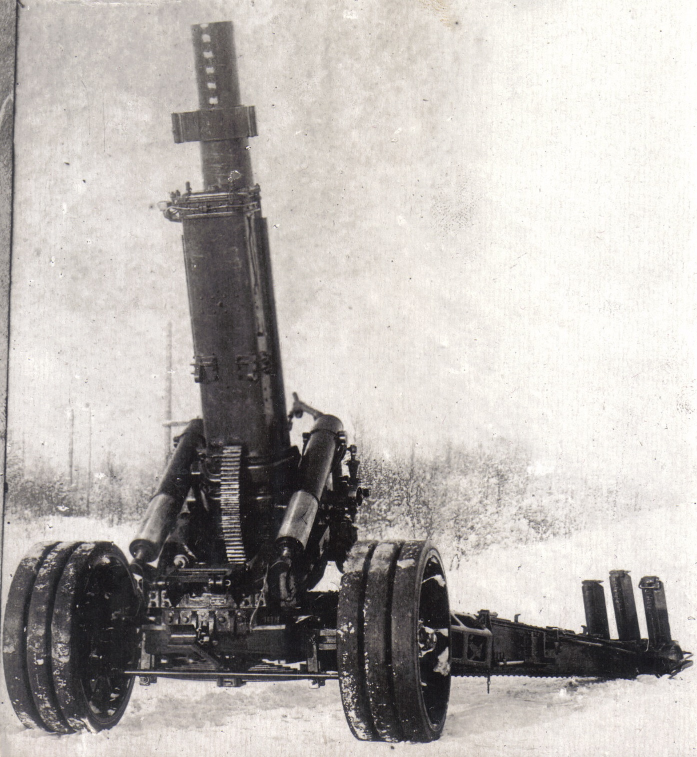 203-mm M-40 howitzer at firing position. Front view.